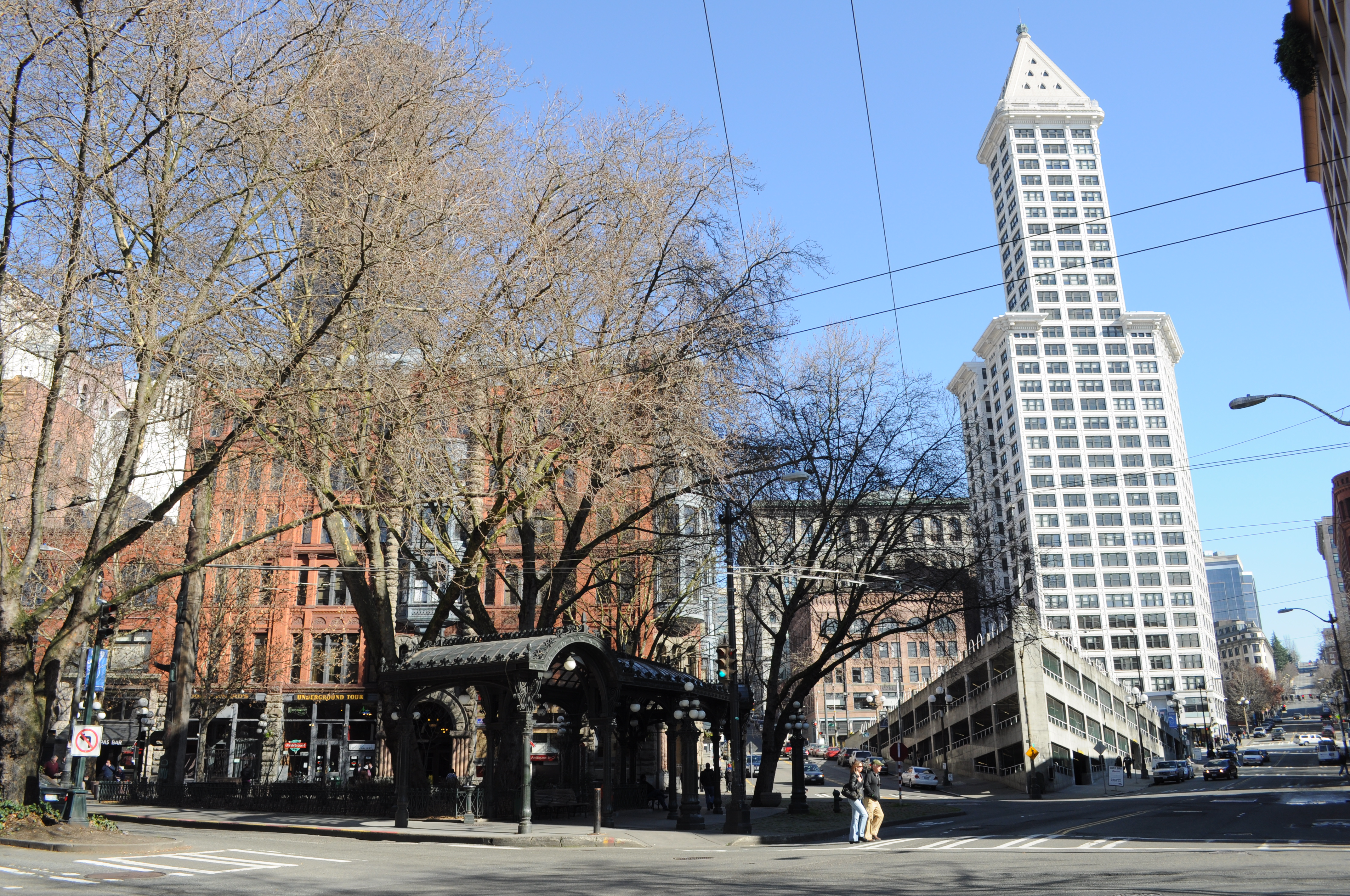 Pioneer Square Park and Smith Tower, Seattle, Washington, USA. View from First & Yesler.